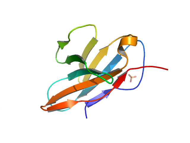 This structure is the deglycosylated and proteolyzed form of secreted fragment of the extracellular portion of human CD8α. Created using PyMol, from PDB file: 1CD8